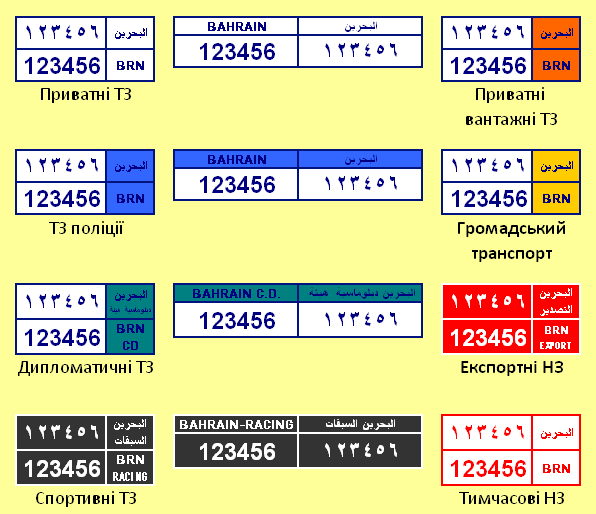 1992 license plate series from Bahrain